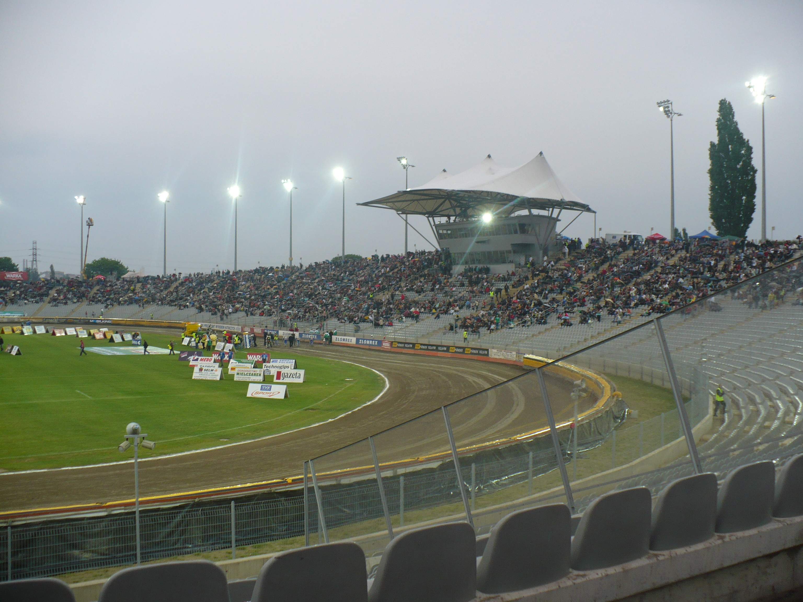 Arena Czestochowa speedway stadium in Częstochowa, Poland